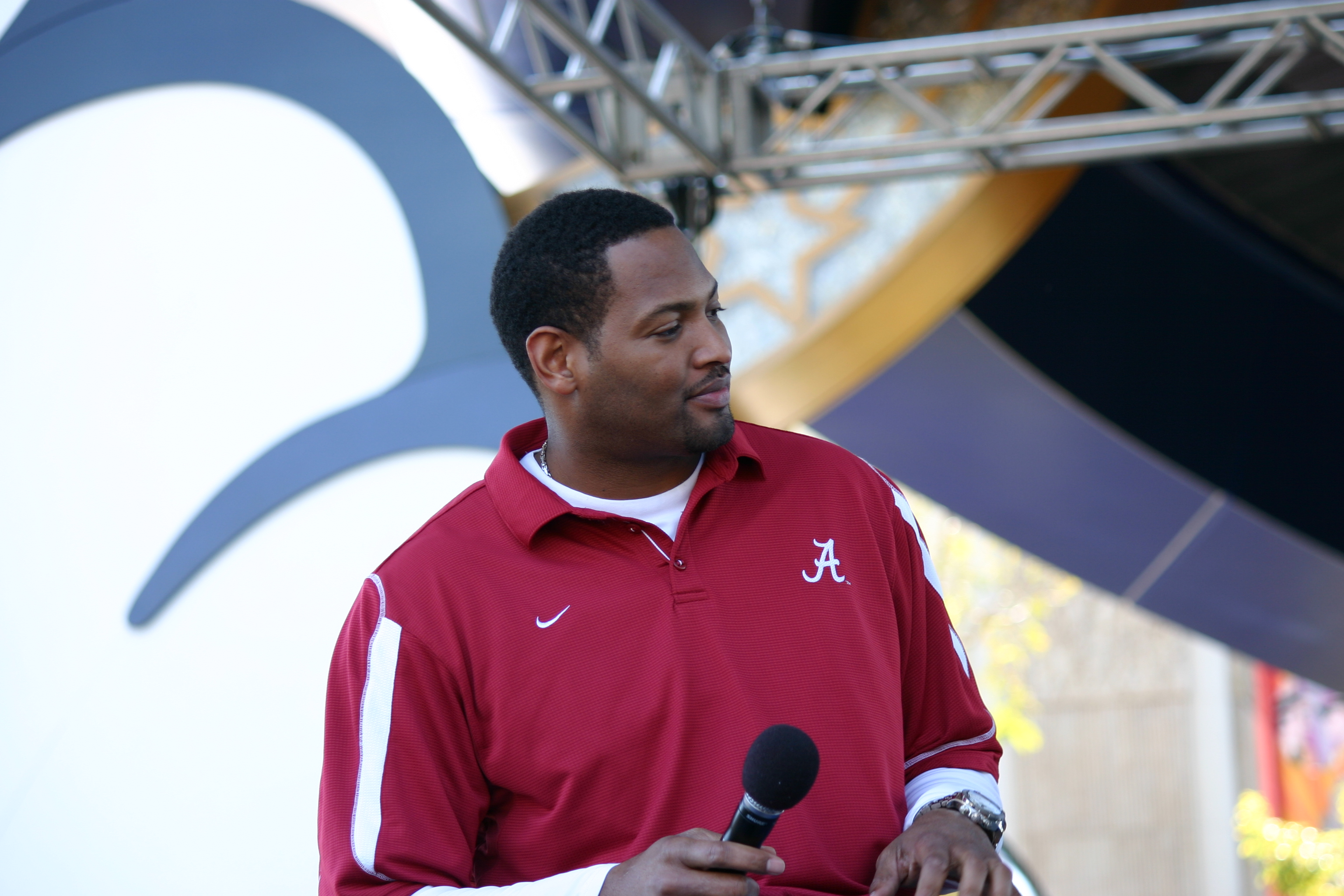 Robert Horry interviewed on Inside SportsCenter at ESPN the Weekend, February 26, 2010